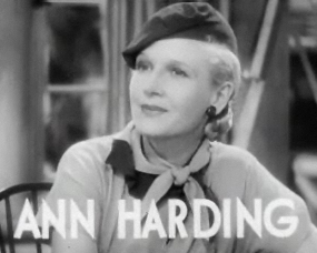 Cropped screenshot of Ann Harding from the trailer for the film Biography of a Bachelor Girl